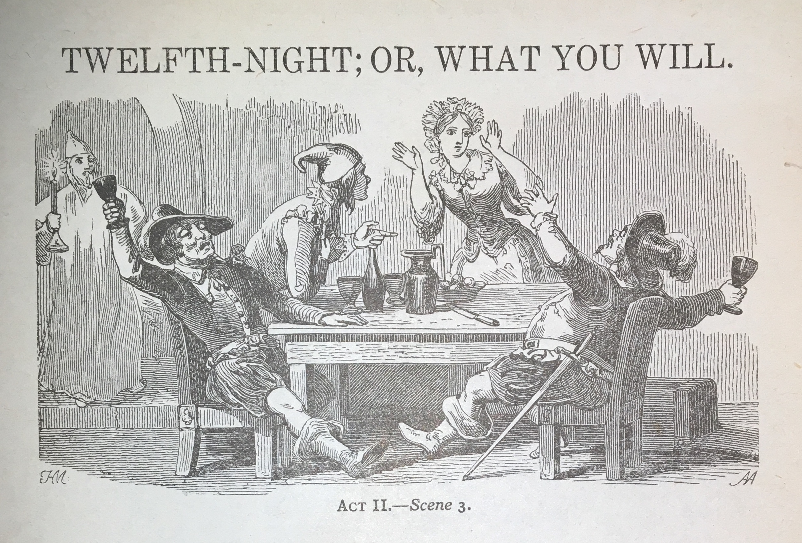 A lithograph image depicting a scene from Twelfth-Night